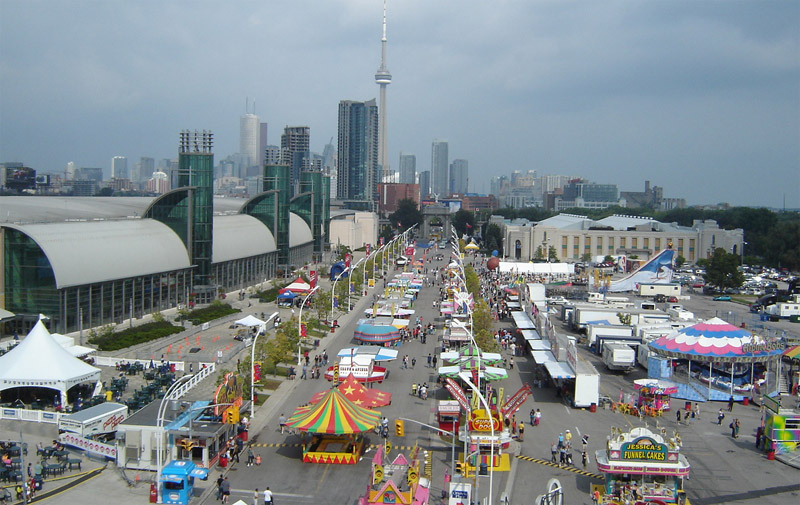 This is a photograph taken by Jesse Munroe (ExPlaceLover) from the top of the Canadian National Exhibition's Ferris Wheel in Exhibition Place, Toronto. It shows the National Trade Centre, the Princes' Gates, the Automotive Building and the CNE Midway.